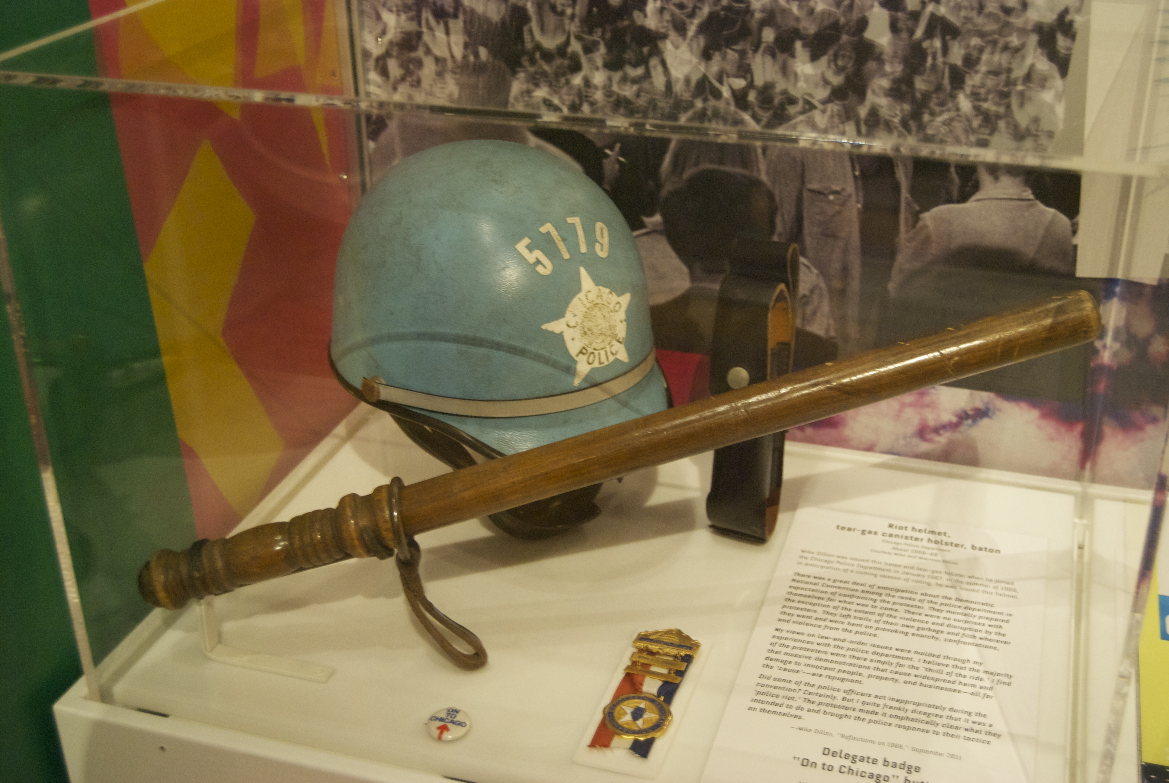 Chicago Police helmet & billy-club